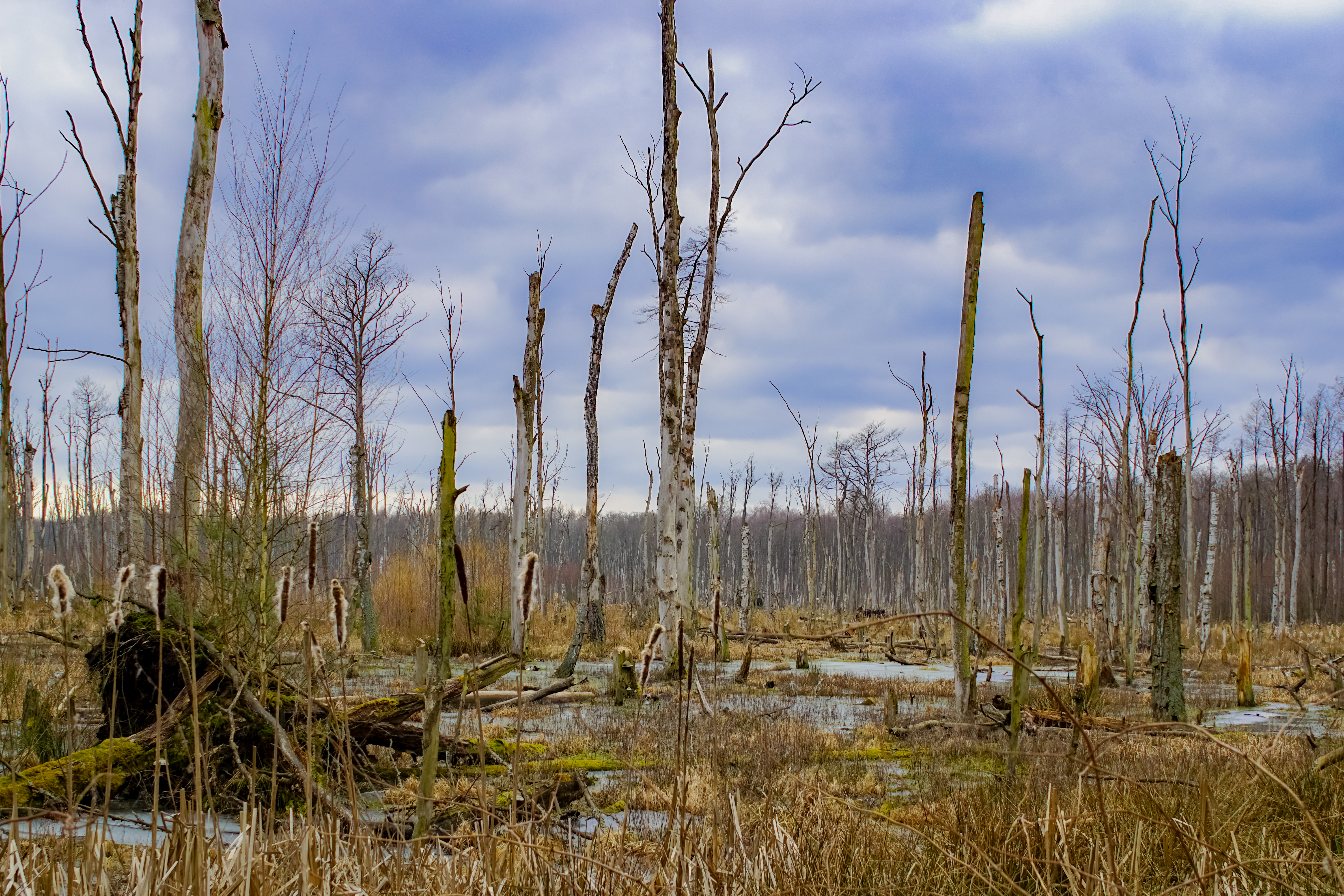 a hugh swamp with many dead trees near Poratz/Uckermark/Brandenburg